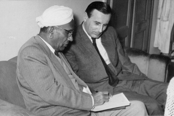 Ágoston Budó (right) with Raman, Chandrasekhara Venkata (left) in Szeged, 1957